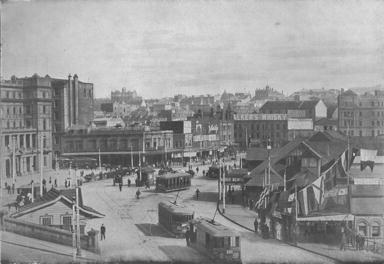 City of Sydney Archives 044\044093